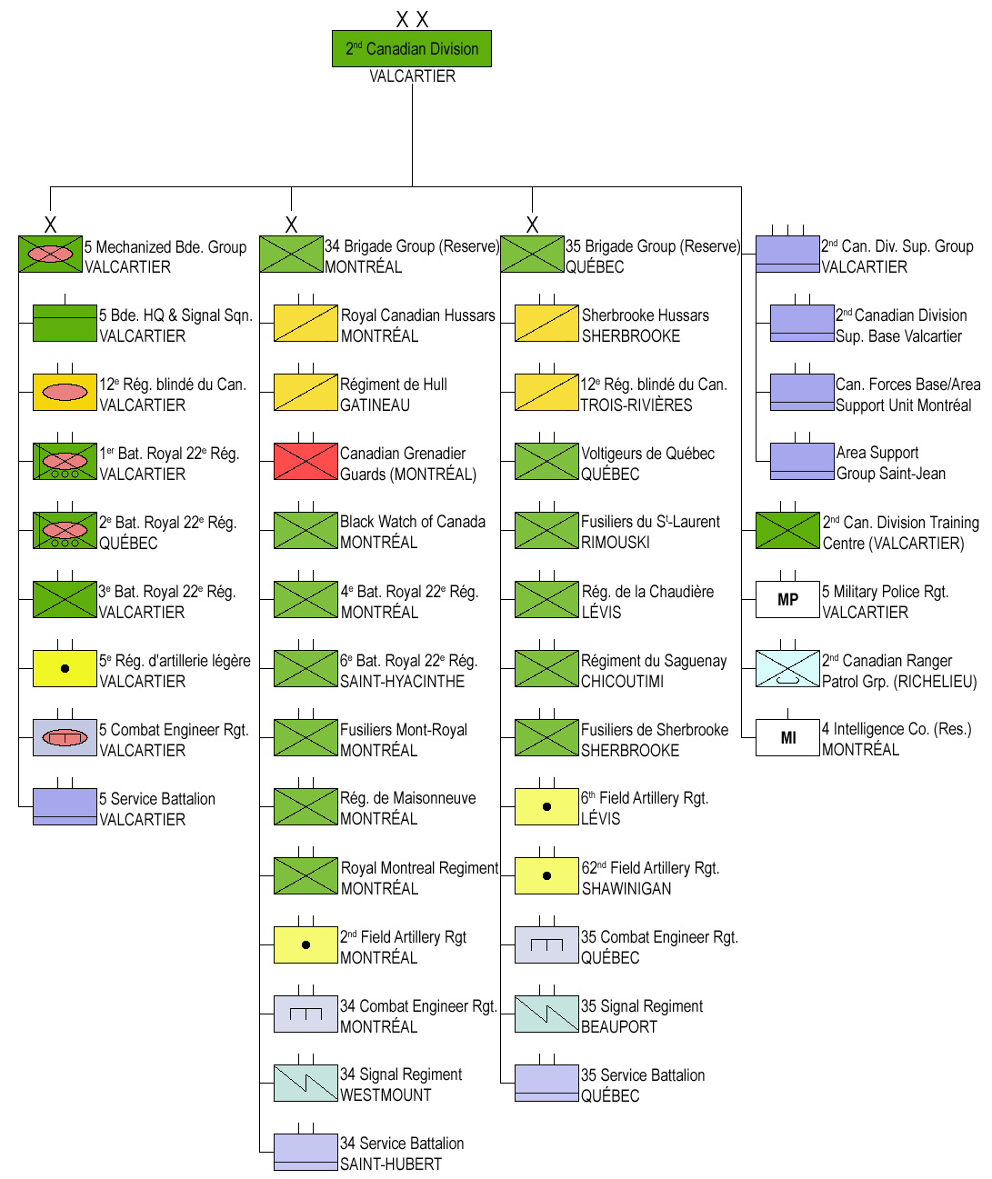 Structure of the 2nd Canadian Division 2013